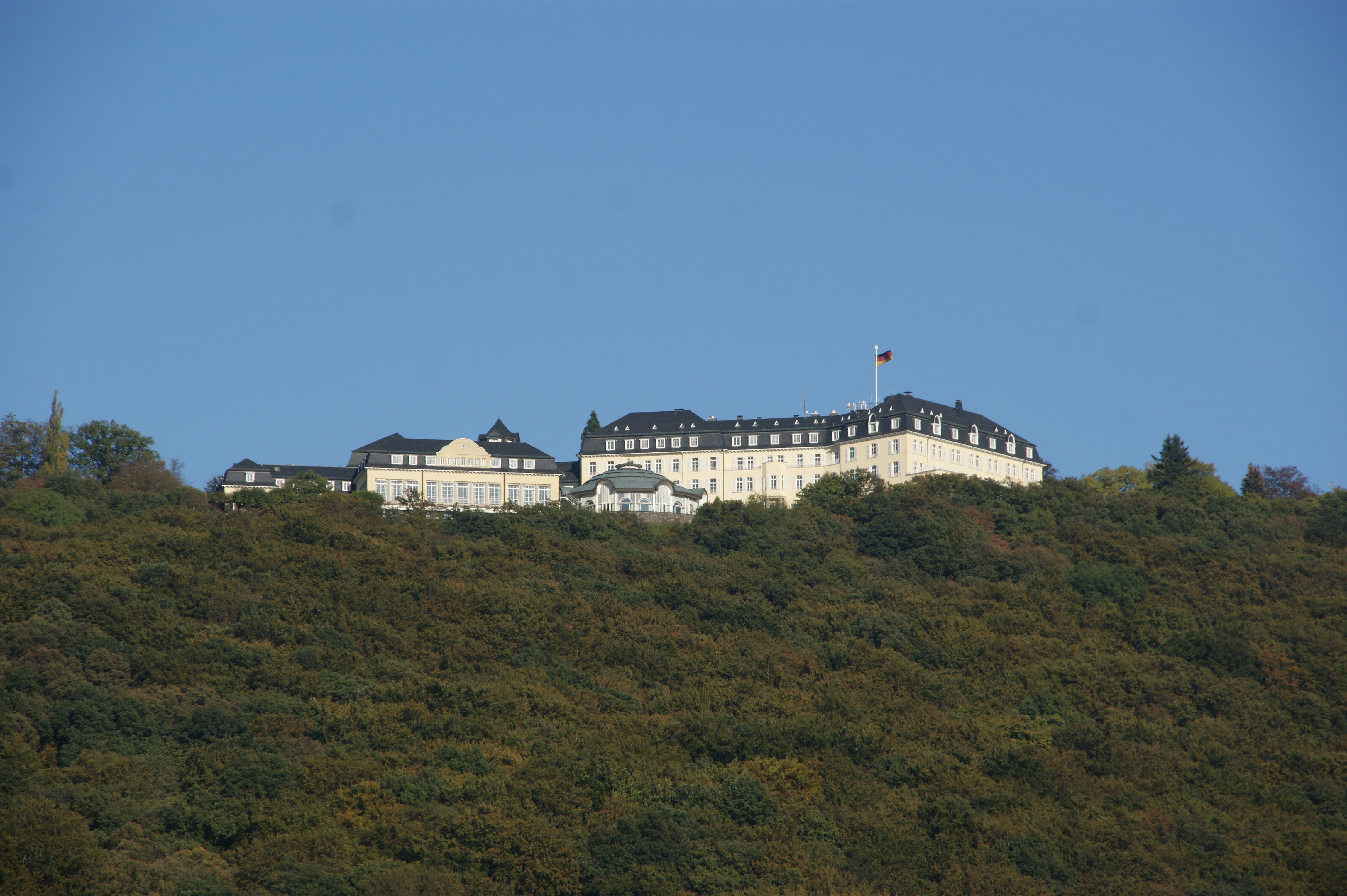 Petersberg in Königswinter (near Bonn) with federal guesthouse.